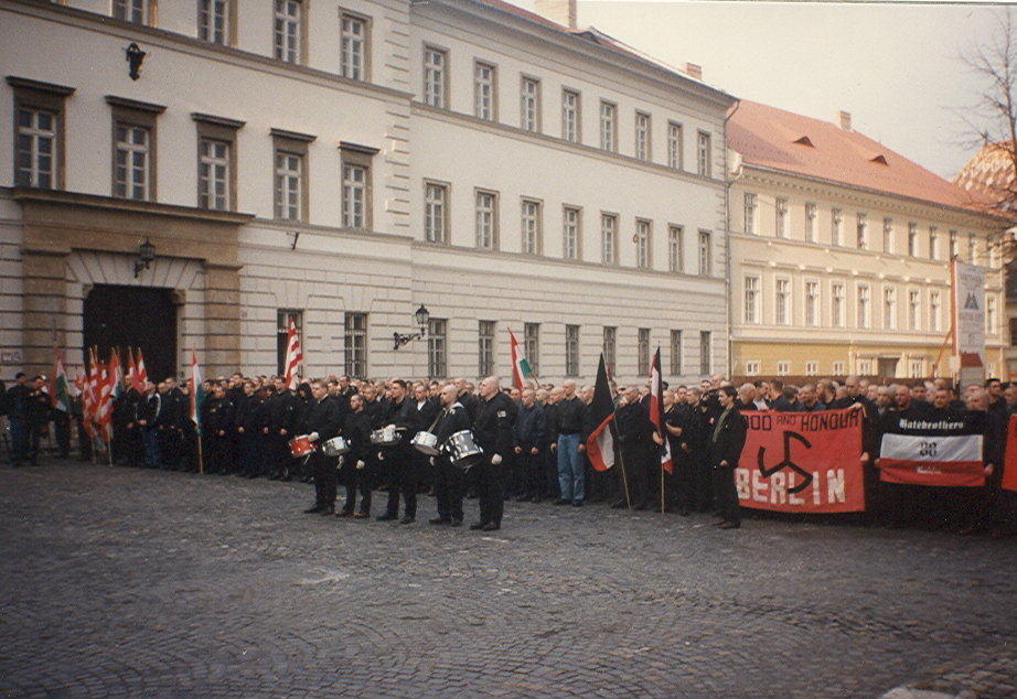 Day of Honour 1998, Budapest, Hungary